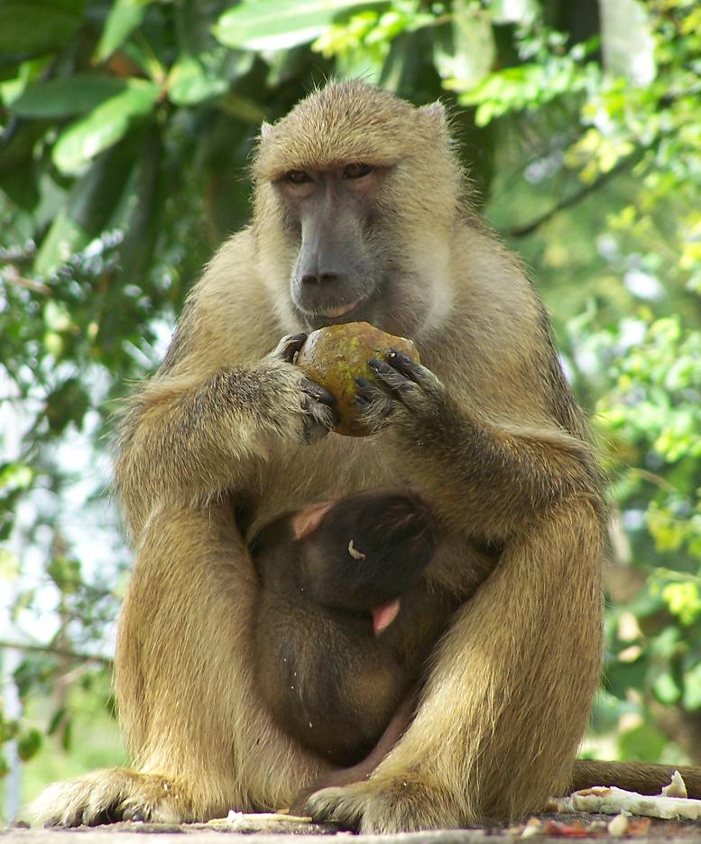 Papio cynocephalus Photo taken at the University of Dar es Salaam in Dar es Salaam, Tanzania. Alexander Landfair.